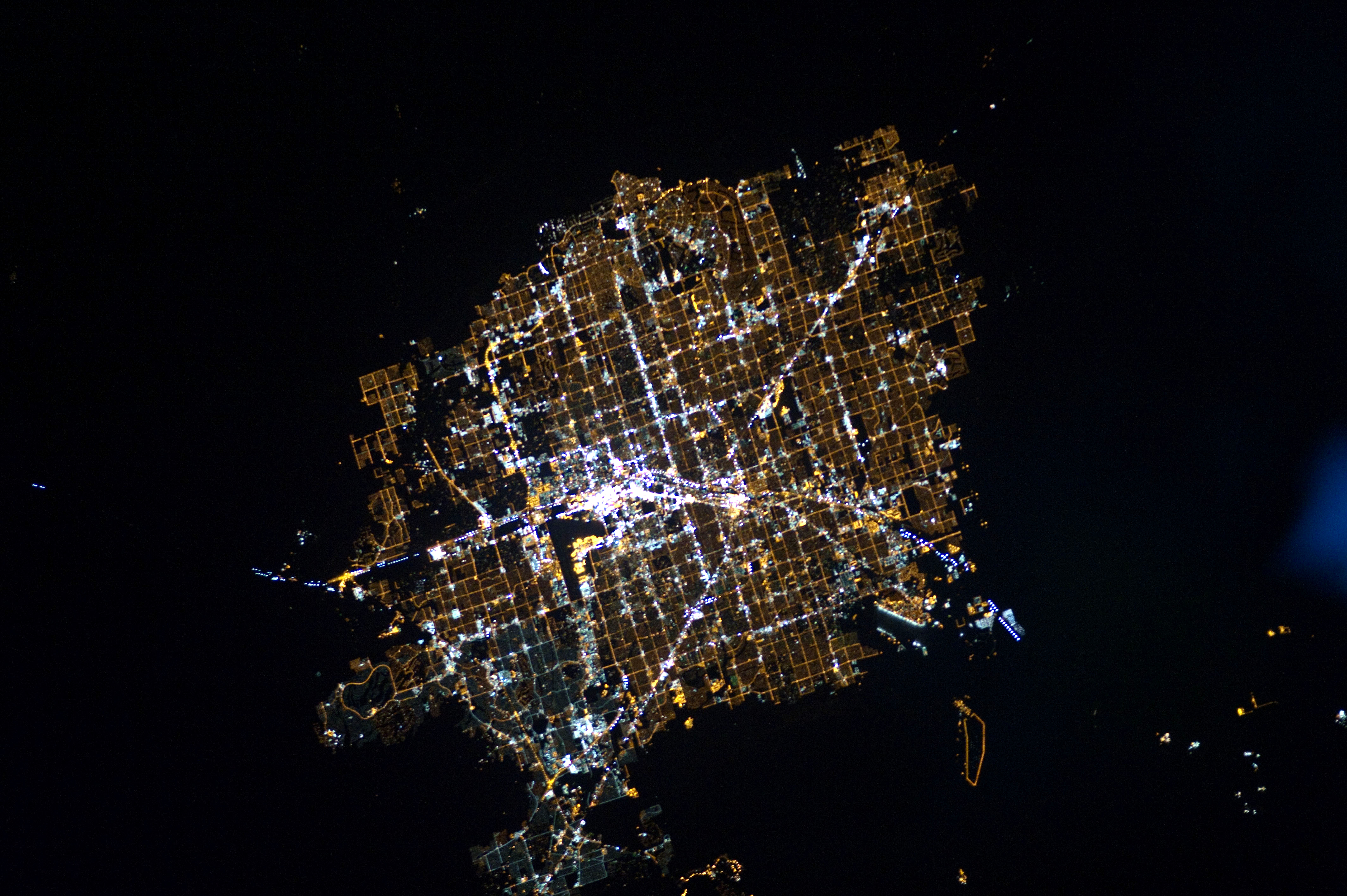 Las Vegas at night. (North is to the right of the picture.) The surrounding darkness of the desert presents a stark contrast to the brightly lit street grid of the developed area. The Vegas Strip is reputed to be the brightest spot on Earth due to the concentration of lights on its hotels and casinos. The tarmac of McCarran International Airport is dark by comparison, while the airstrips of Nellis Air Force Base on the north-eastern fringe are likewise dark. The dark mass of Frenchman Mountain borders the city to the east.